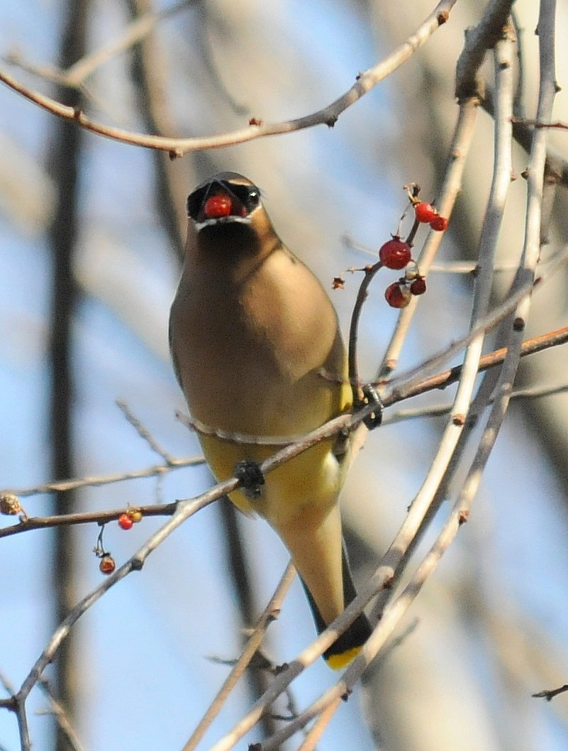 A cedar waxwing eating a berry. Rockville, Maryland, USA.